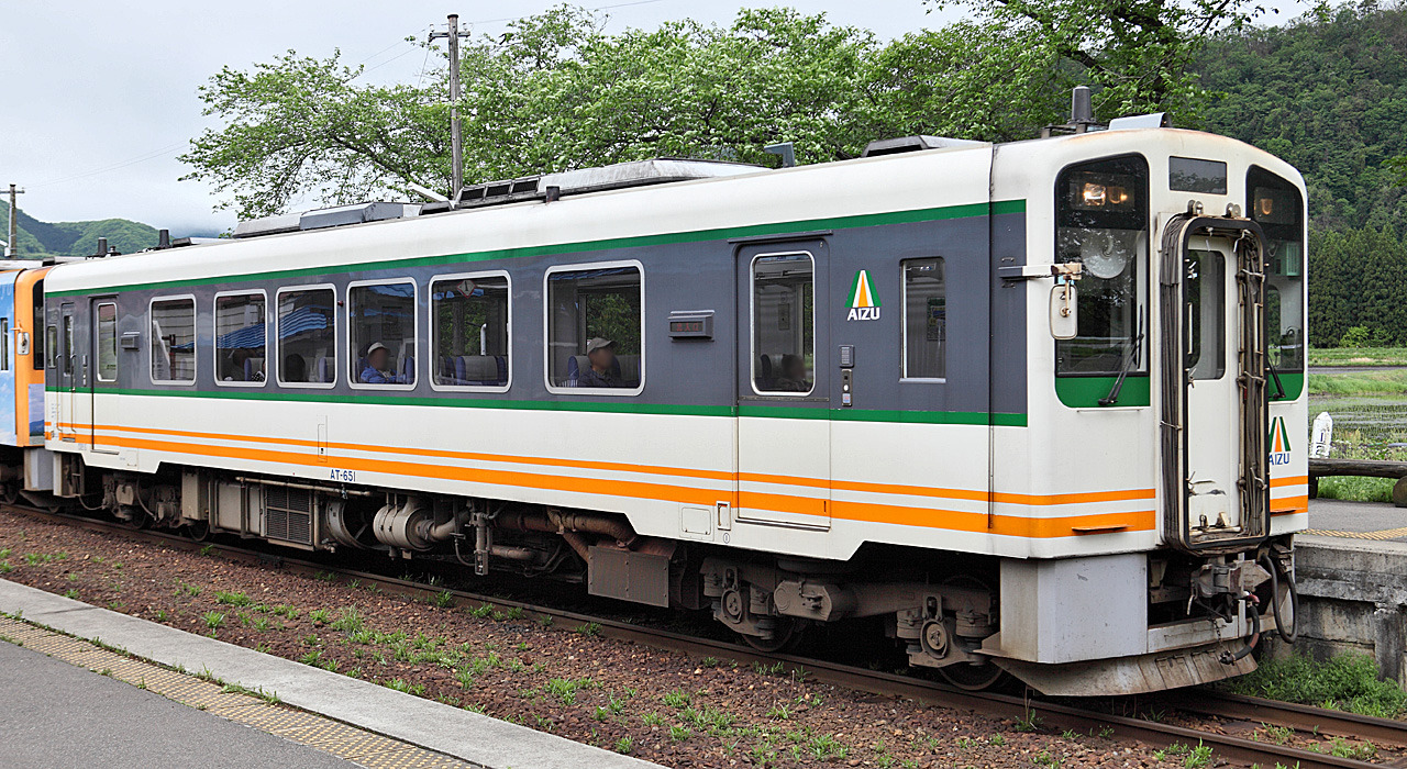 Aizu Railway Type AT-650 DMU